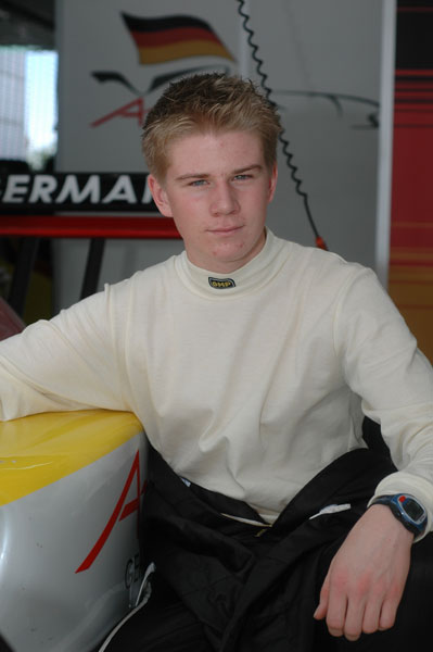 Nico Hülkenberg during A1 Grand Prix Malaysia 2006/07 (Round 4) at Sepang circuit. Hulkenberg winner for this race